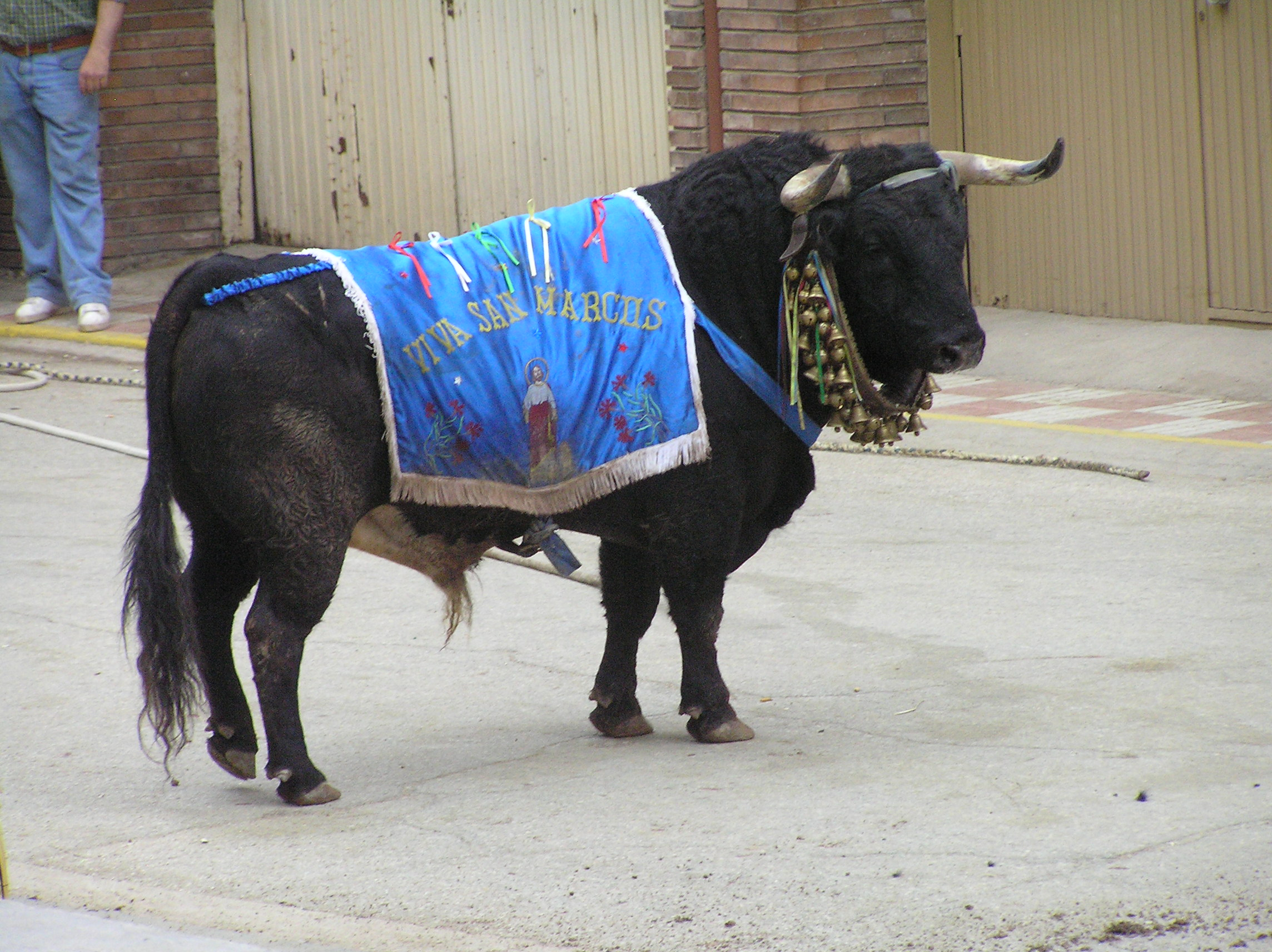 Toro en San Marcos